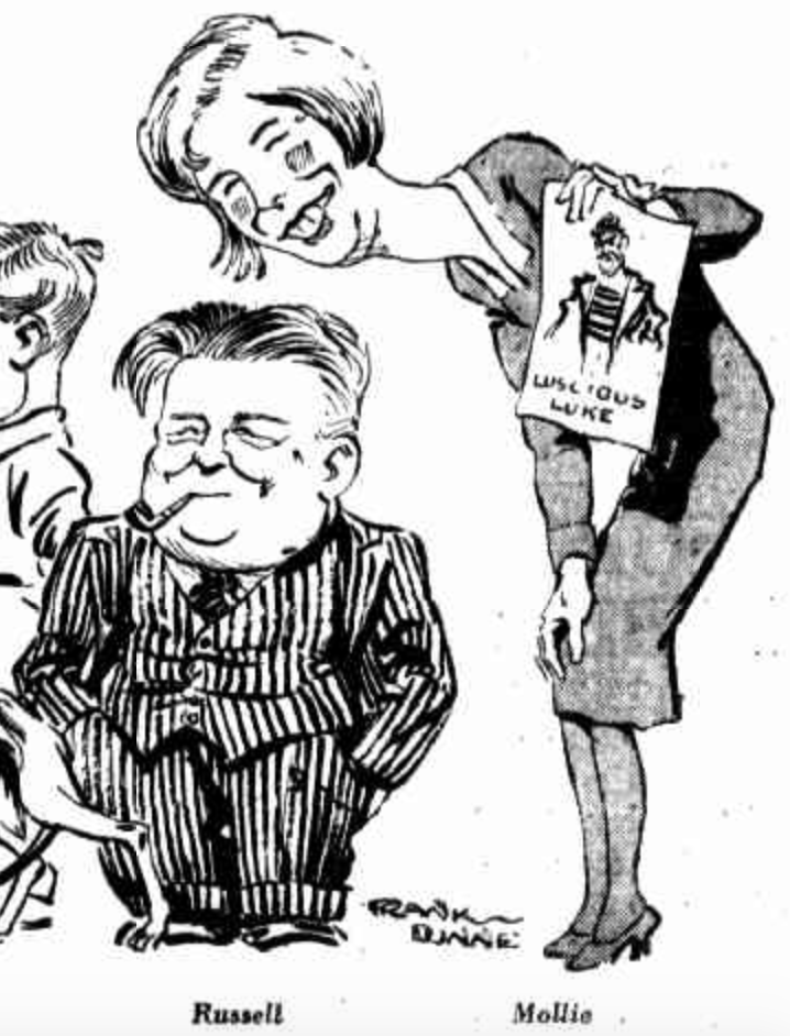 Marie Compston "Mollie" Horseman (1911-1974), Australian cartoonist who drew "Pam" and "The Clothes Horse", with Jim Russell (1909-2001), who drew "The Potts"